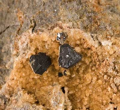 Tiemannite Locality: Marysvale District (Marysvale Uranium area), Piute County, Utah, USA (Locality at ) Size: 5 x 5 x 3.9 cm. Tiemannite is a very rare mercury selenide: simply HgSe. This is the classic locality for crystals: tiny black modified tetrahedra. This specimen hosts a few superb, sharp crystals, unusually free of alteration coatings, on matrix. The crystals are small, under 2mm, but very sharp and eye-visible. Another vug, with smaller crystals, lies beneath them. Ex. Philadelphia Academy of Sciences Collection.